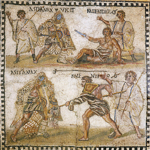 Mosaic at the National Archaeological Museum in Madrid showing a retiarius (net-fighter) named Kalendio fighting a secutor named Astyanax. In the bottom image, the secutor is covered in the retiarius's net, but doesn't seem to be hindered. In the upper image, apparently the conclusion of the skirmish, Kalendio is on the ground, wounded, and raises his dagger to surrender. The arena employees await his fate from the editor, not pictured. The inscription above reads ASTYANAX VICIT, as well as name of Kalendio followed by the symbol ∅ (null), implying that he was killed by Astyanax.